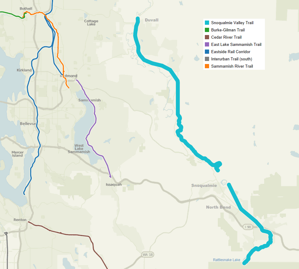 Map of Snoqualmie Valley Regional Trail and other nearby rail trails. Created with Tableau